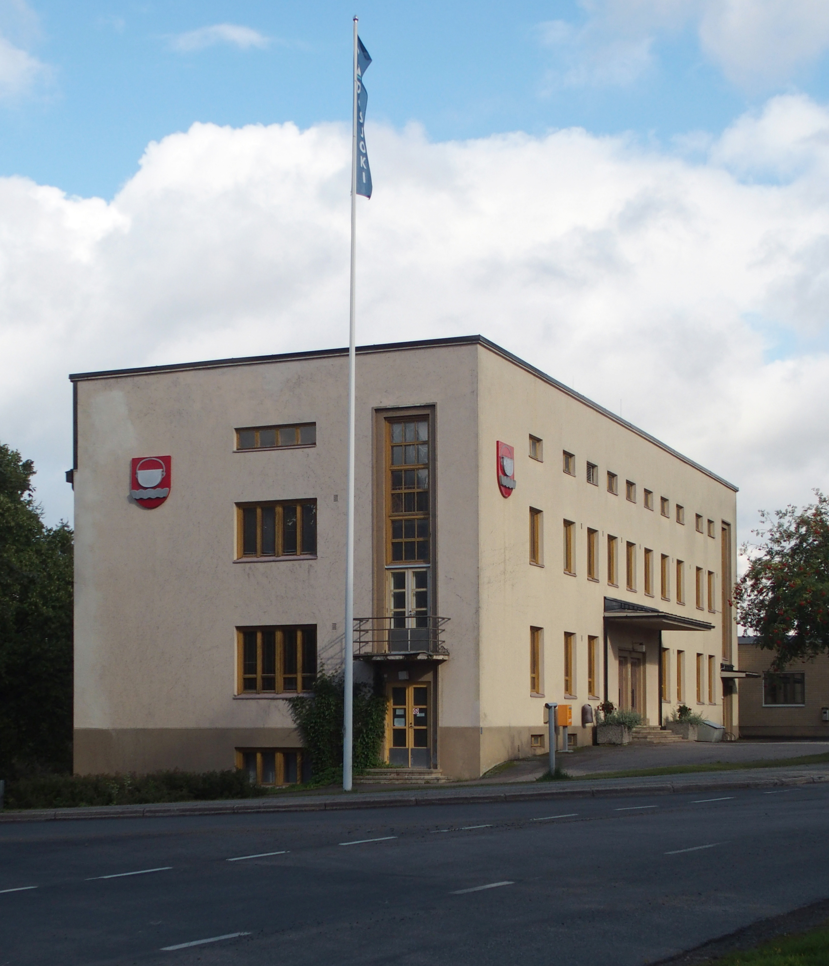 Padasjoki town hall